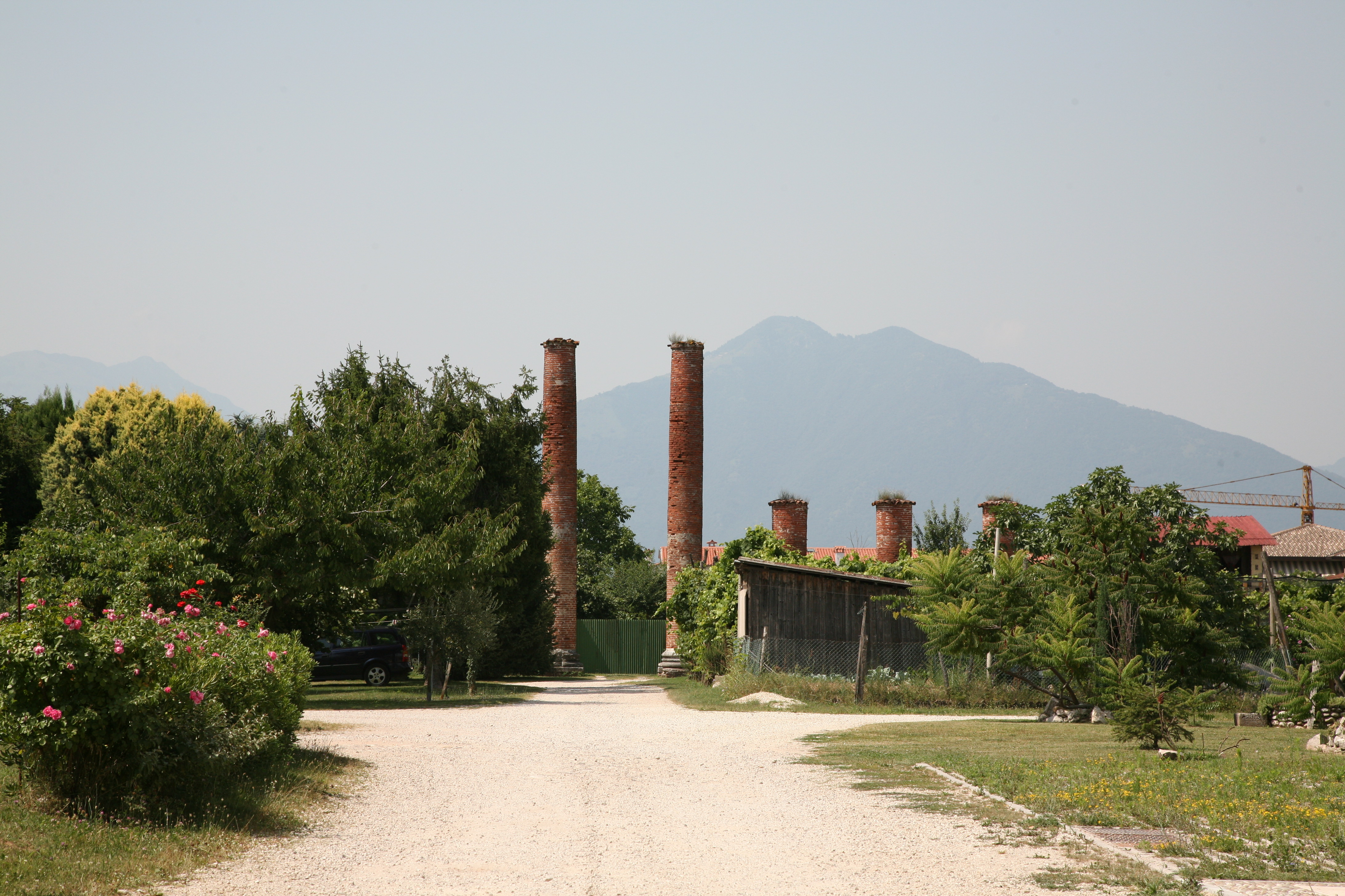 Only columns exists of the villa Palladio concieved on behalf of Iseppo Porto